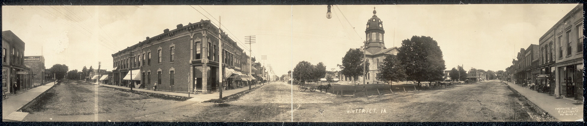 Panorama of Winterset, Iowa in 1907. The Madison County Courthouse is visible in the center right of the picture.